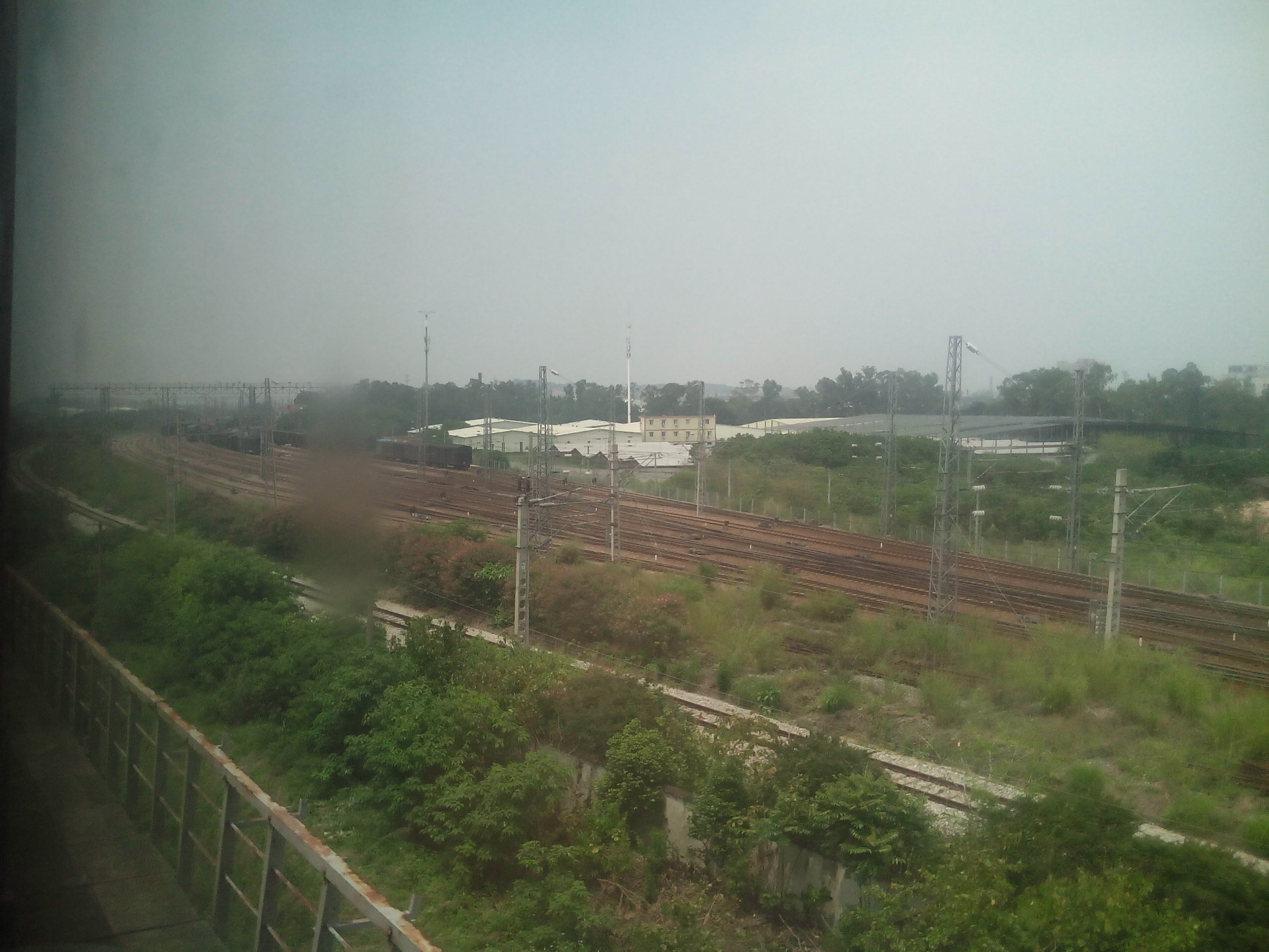 201504 Jiangcun Railway Stataion